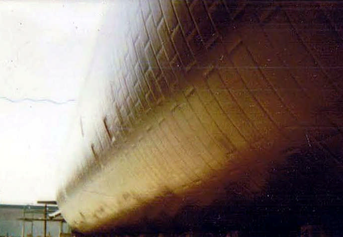 Special Hull Treatments (anechoic coatings) visible on USS ASHEVILLE (SSN-758) hull, at Pearl Harbor Naval Shipyard. Photograph was taken by, YN2(SS) Pritchard on December 14th, 1998, with a US Navy Polaroid Camera.